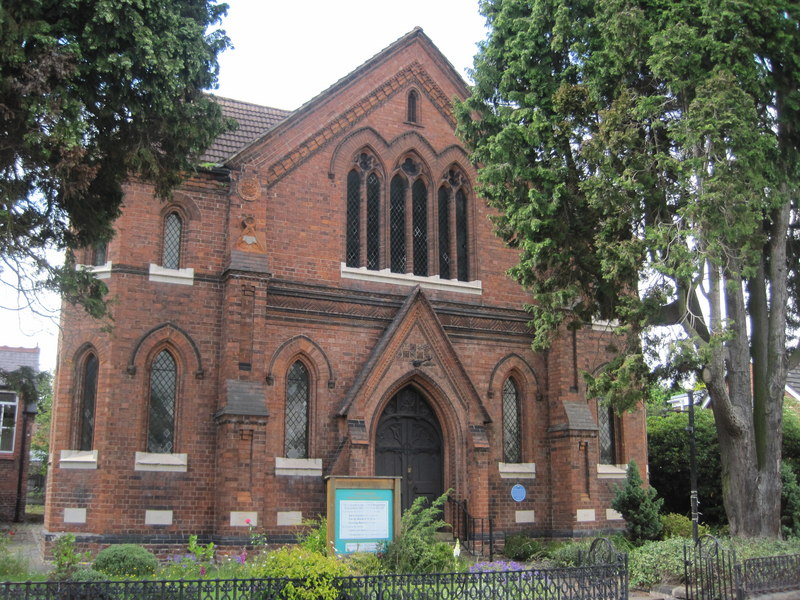 Photograph of Weaverham Methodist Church